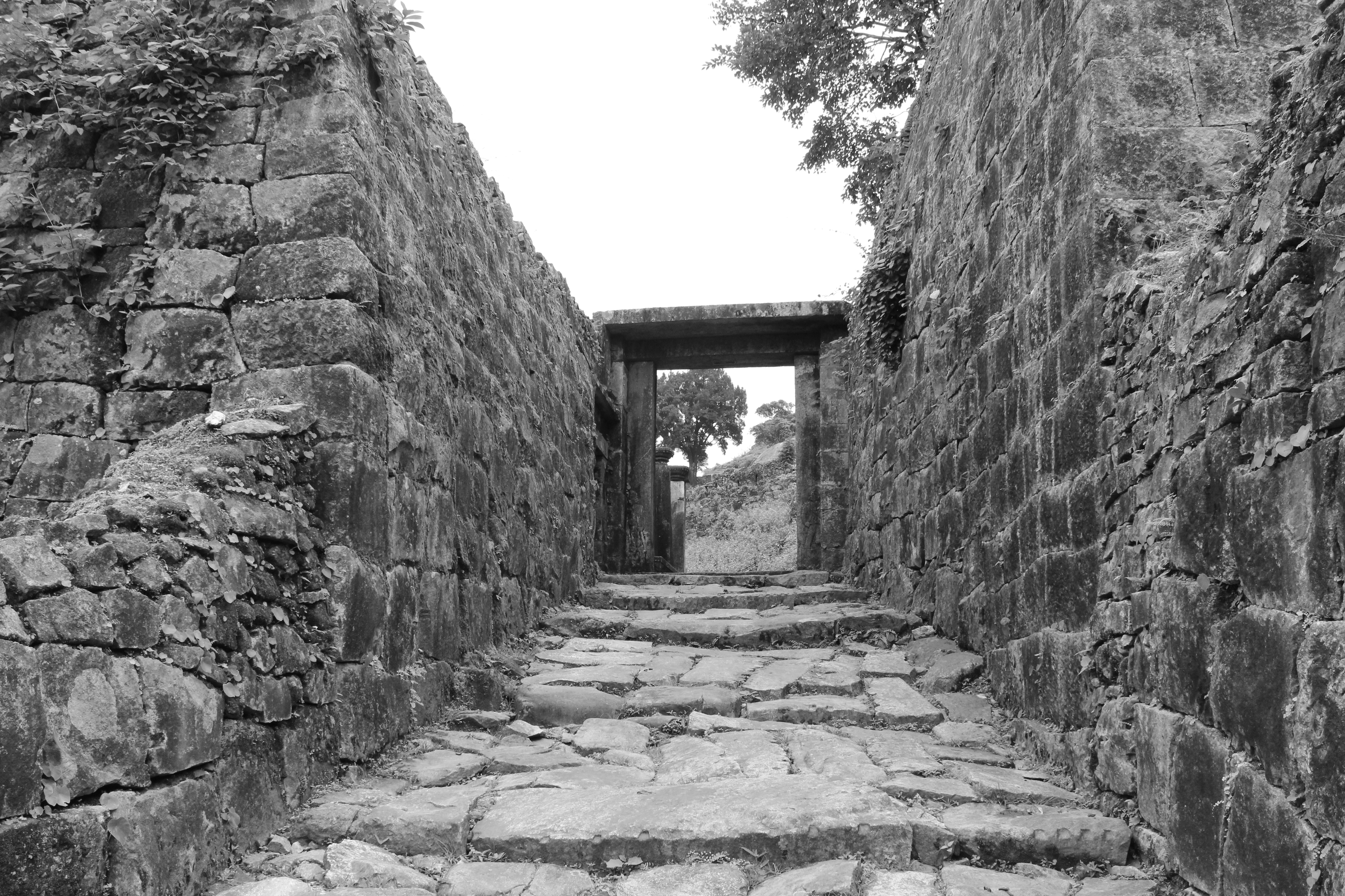 Kavale durga Fort